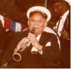 Louis Cottrell, Jr., and grandson Louis Cottrell